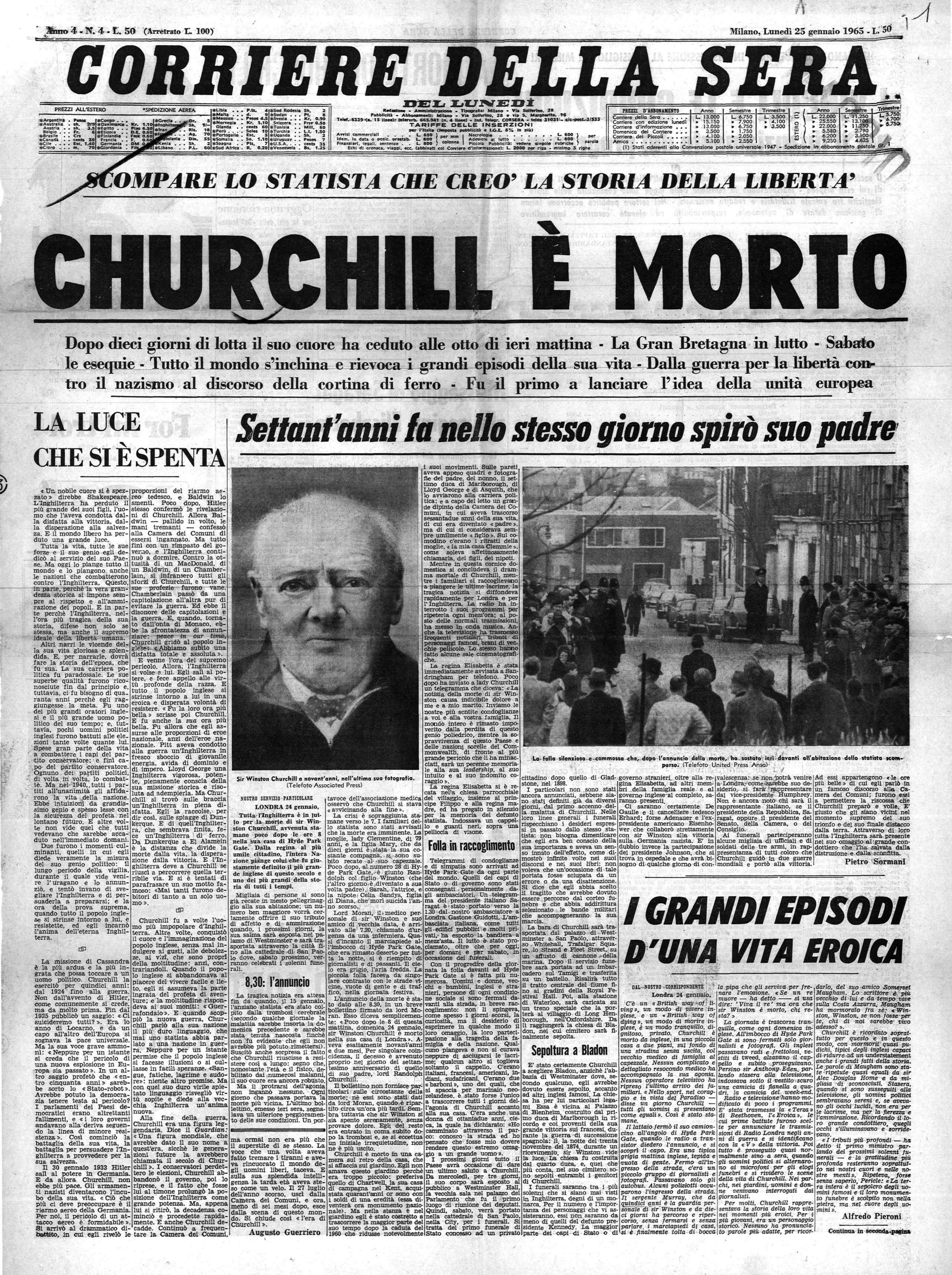 Cover-corriere Churchill death 25th January 1965